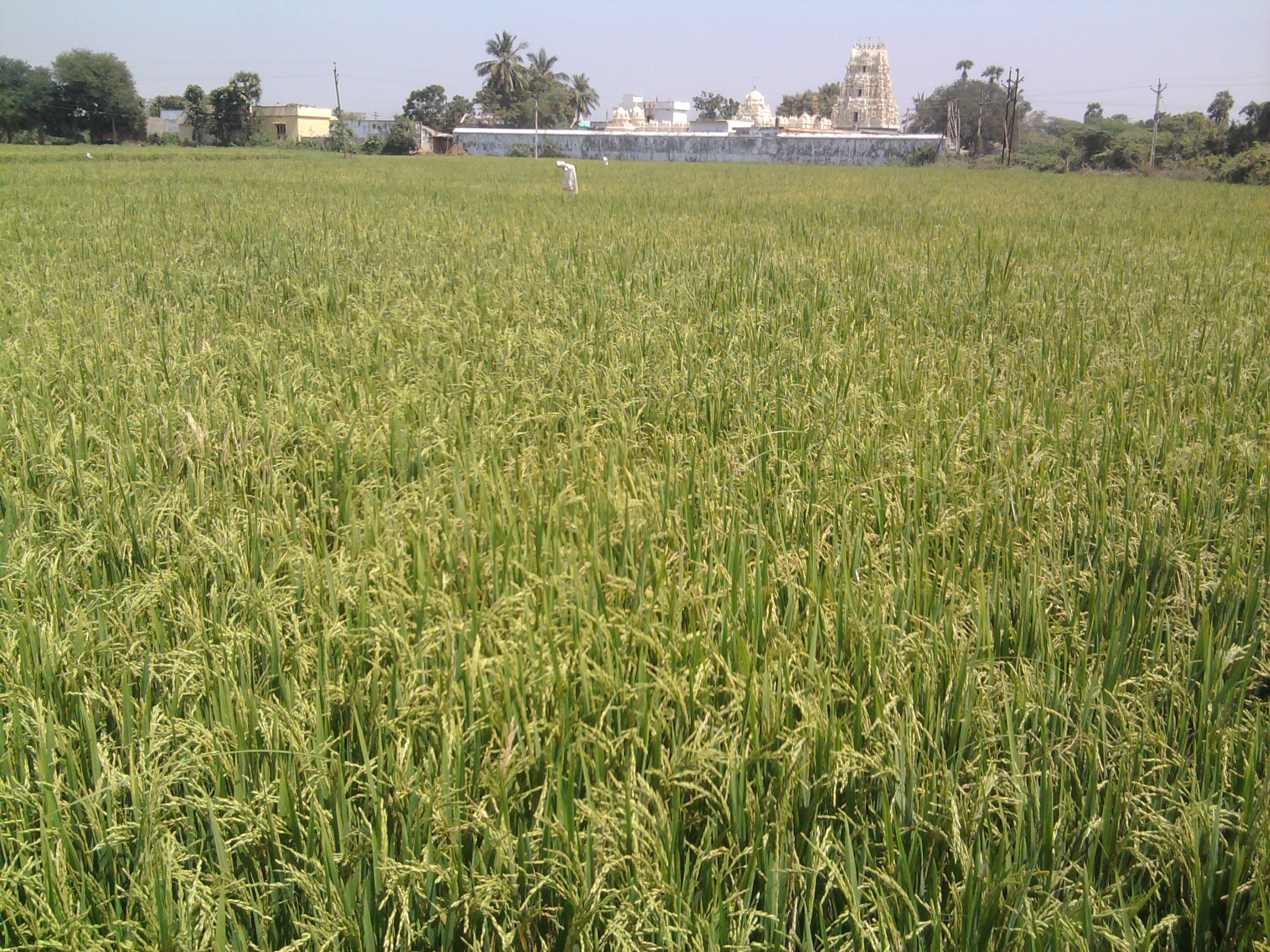 Paddy field, Vinjamoor, Nellore (dt), A.P.